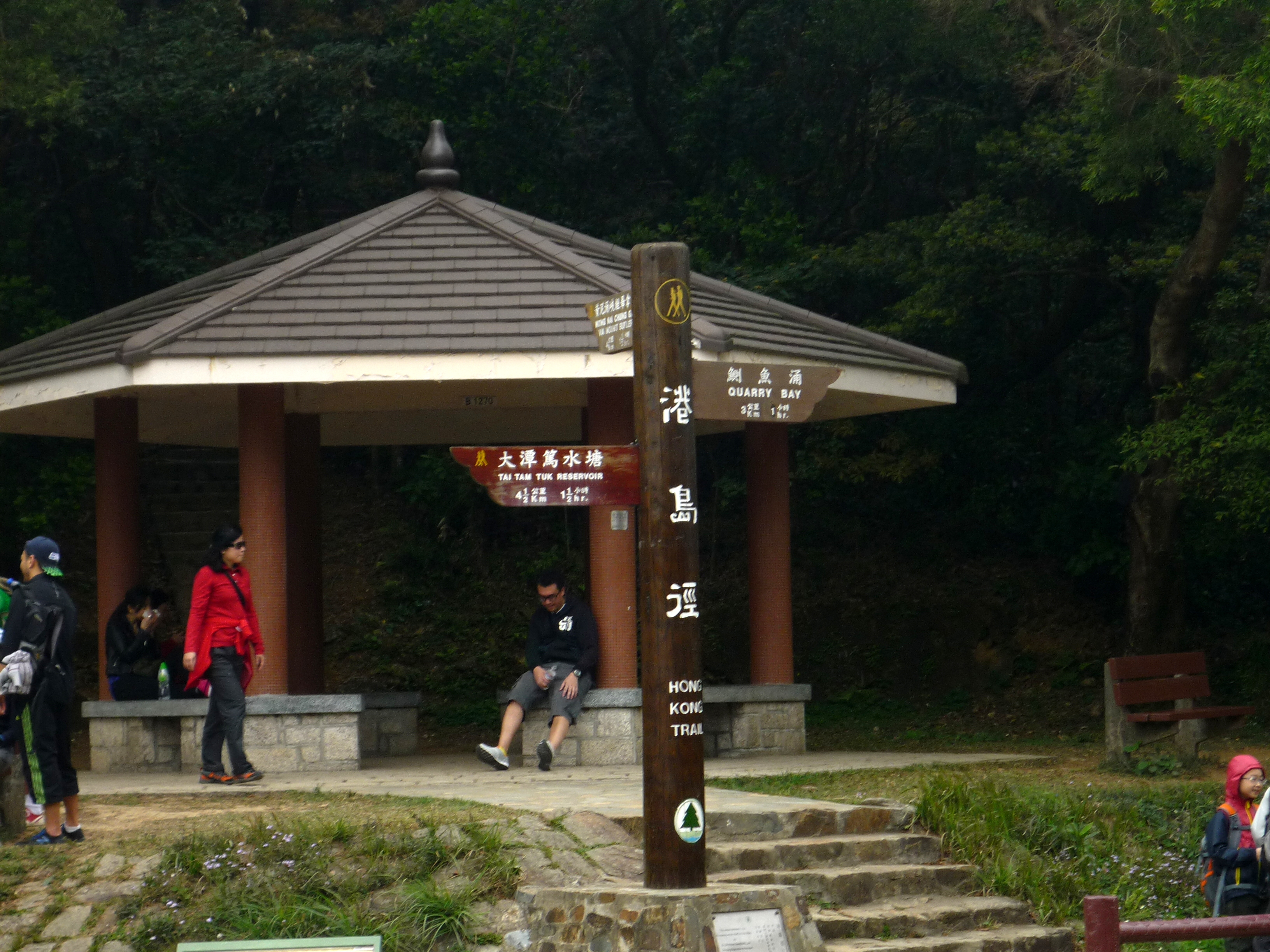 A picture of Quarry Gap